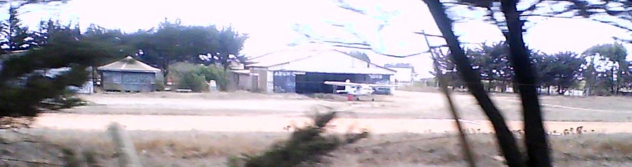 Pichilemu airdrome in March 16, 2010. Cropped version.